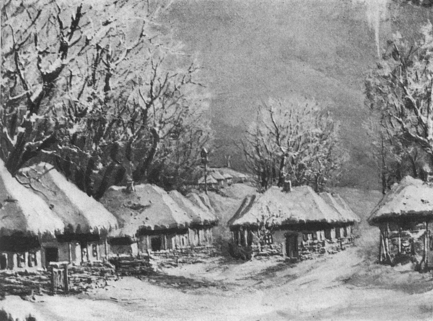 Nikolai Rimsky-Korsakov - Christmas Eve - act IV, street in Dikanka, sketch by I. A. Suworow 1895